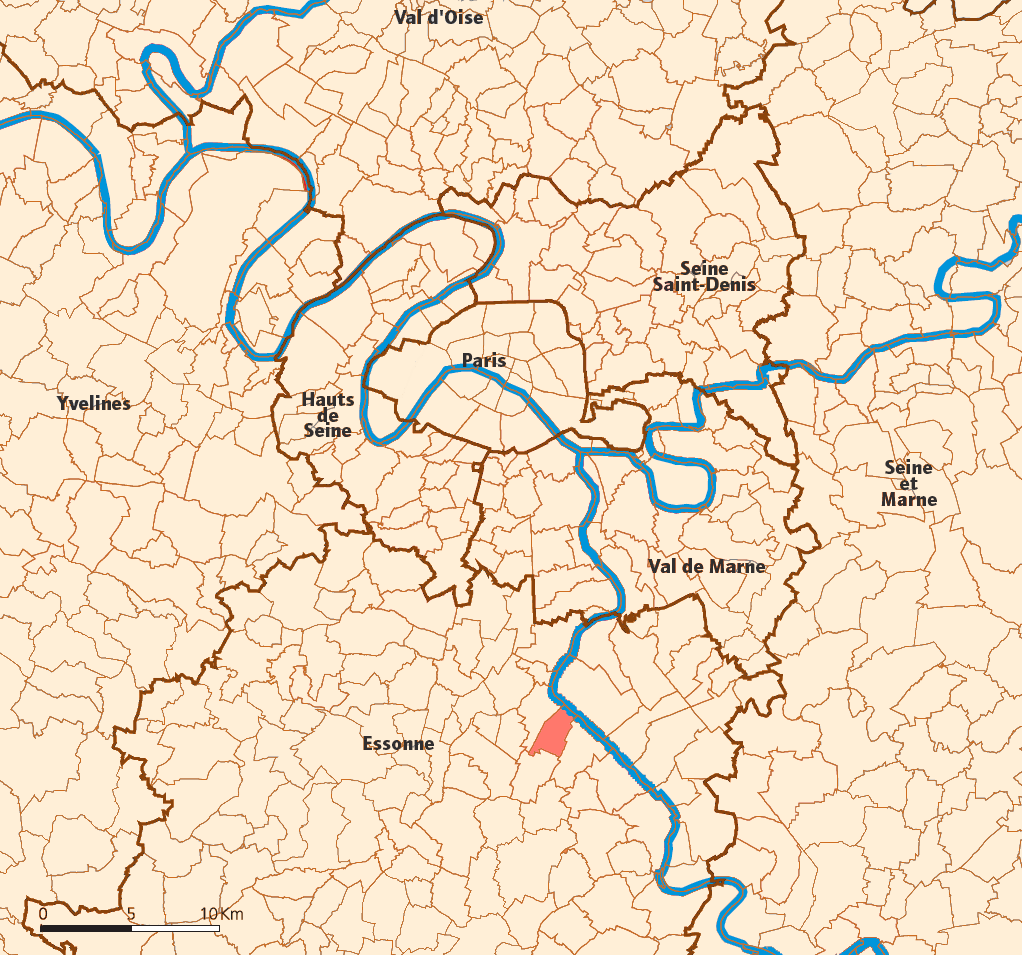 Created map myself